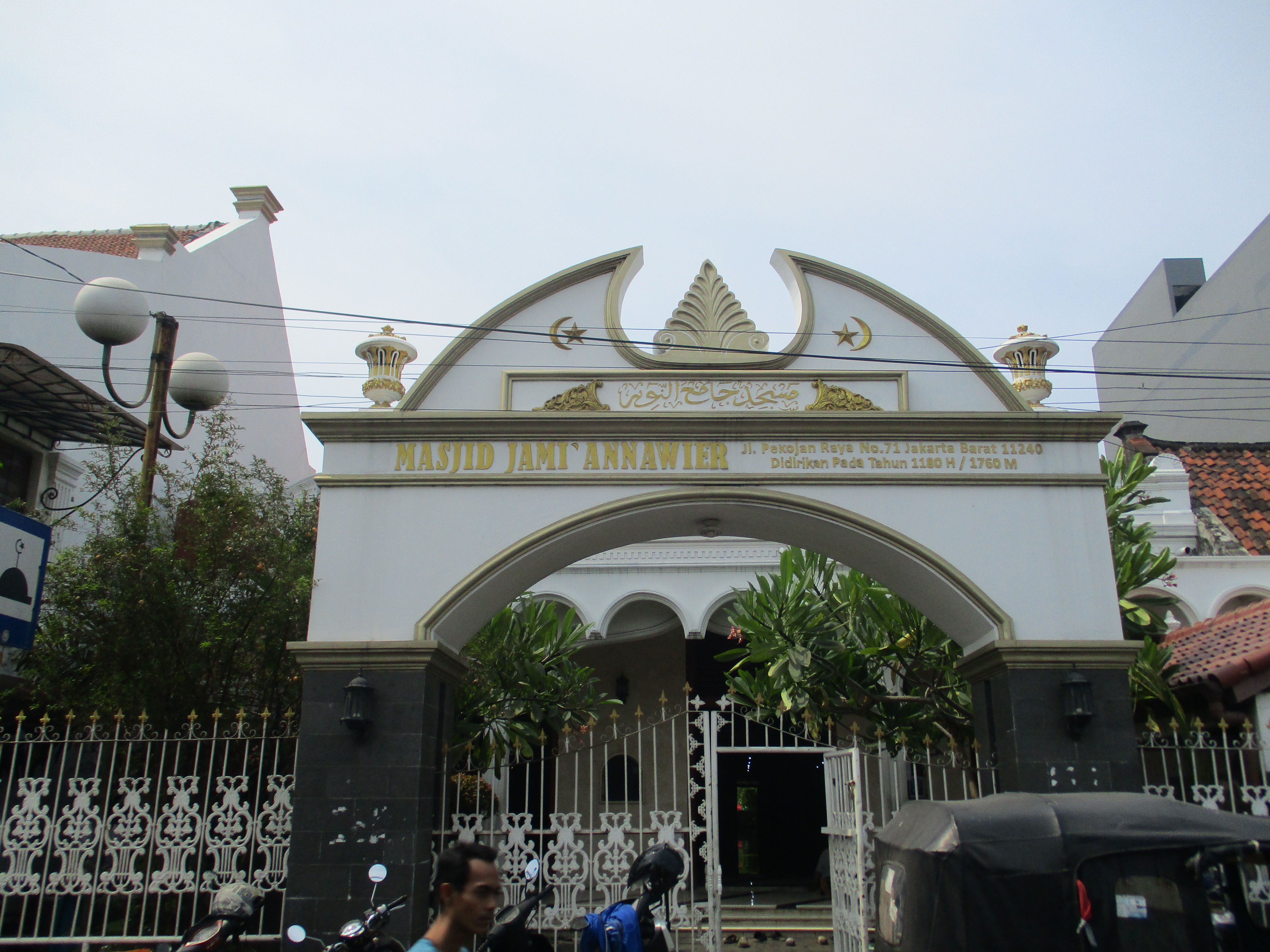 Masjid Jami Annawier, Pekojan, Jakarta